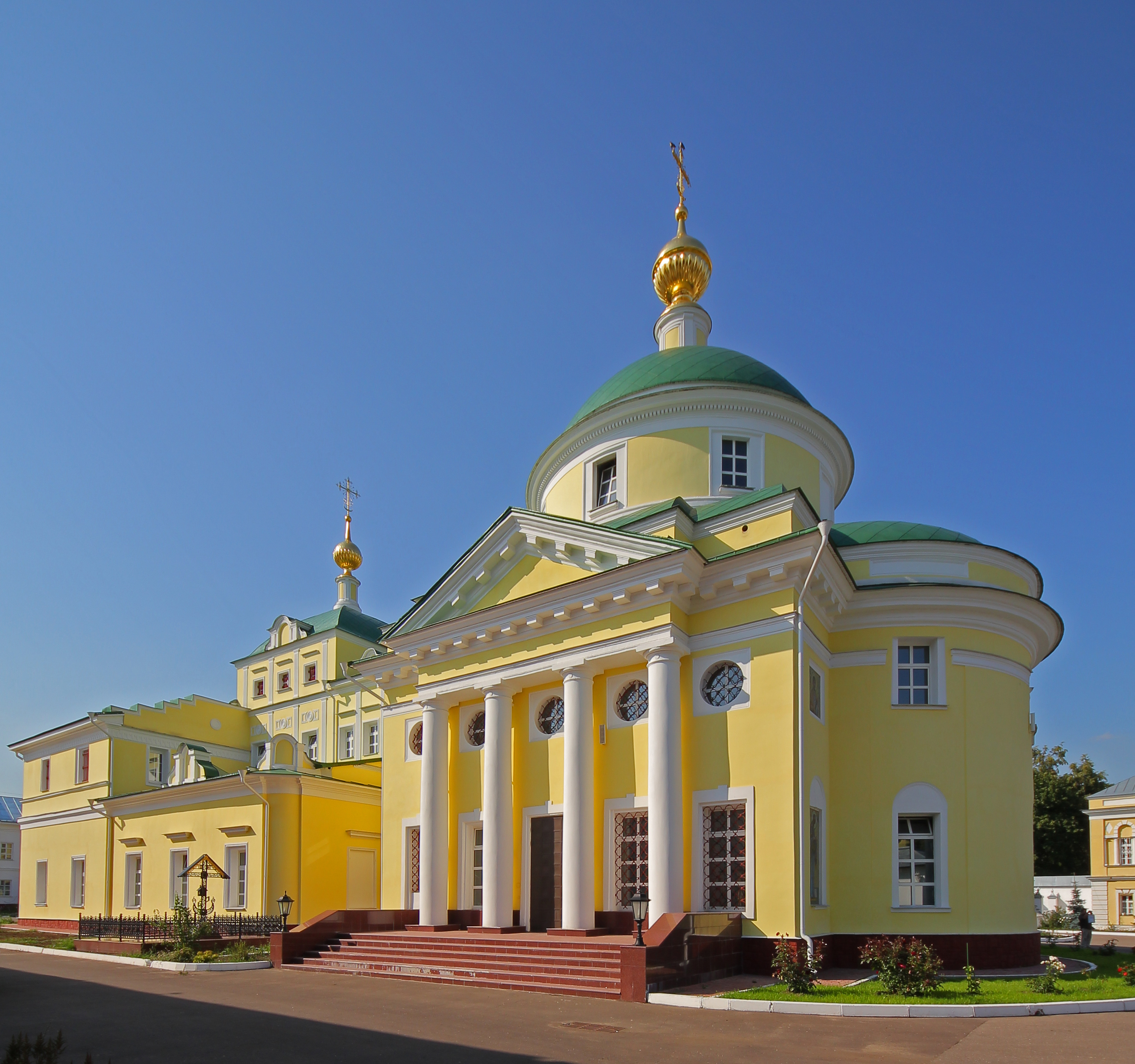 St. Catherine Monastery in Vidnoye, Moscow Oblast, Russia. Churches of Peter and Paul (left) and St. Catherine (right).